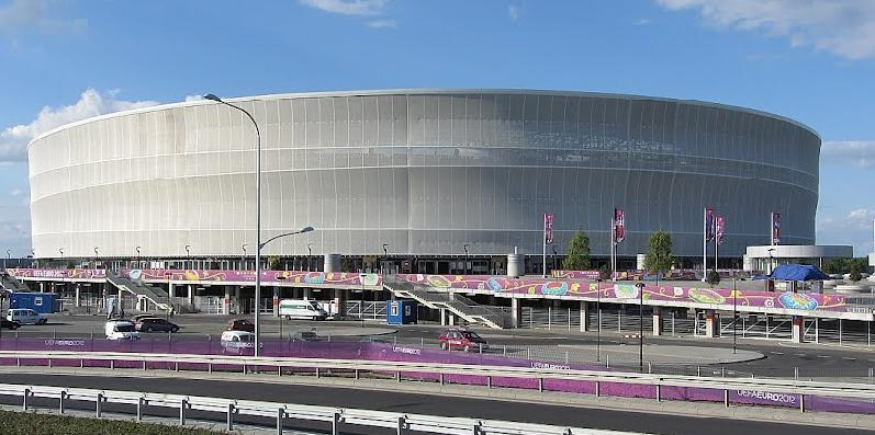 Stadion Miejski we Wrocławiu2